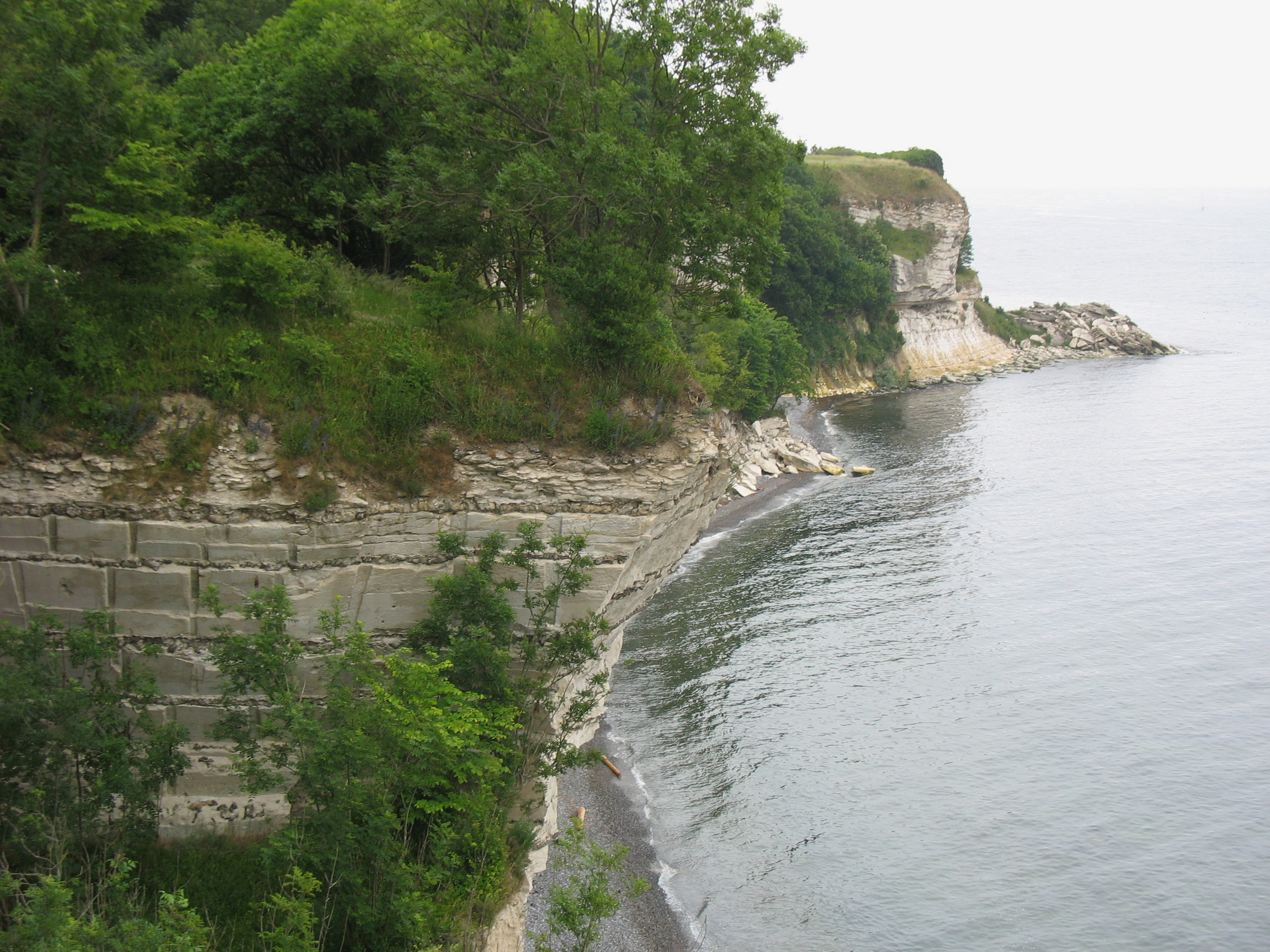 The cliff "Stevns Klint" located in South Zealand, east Denmark.